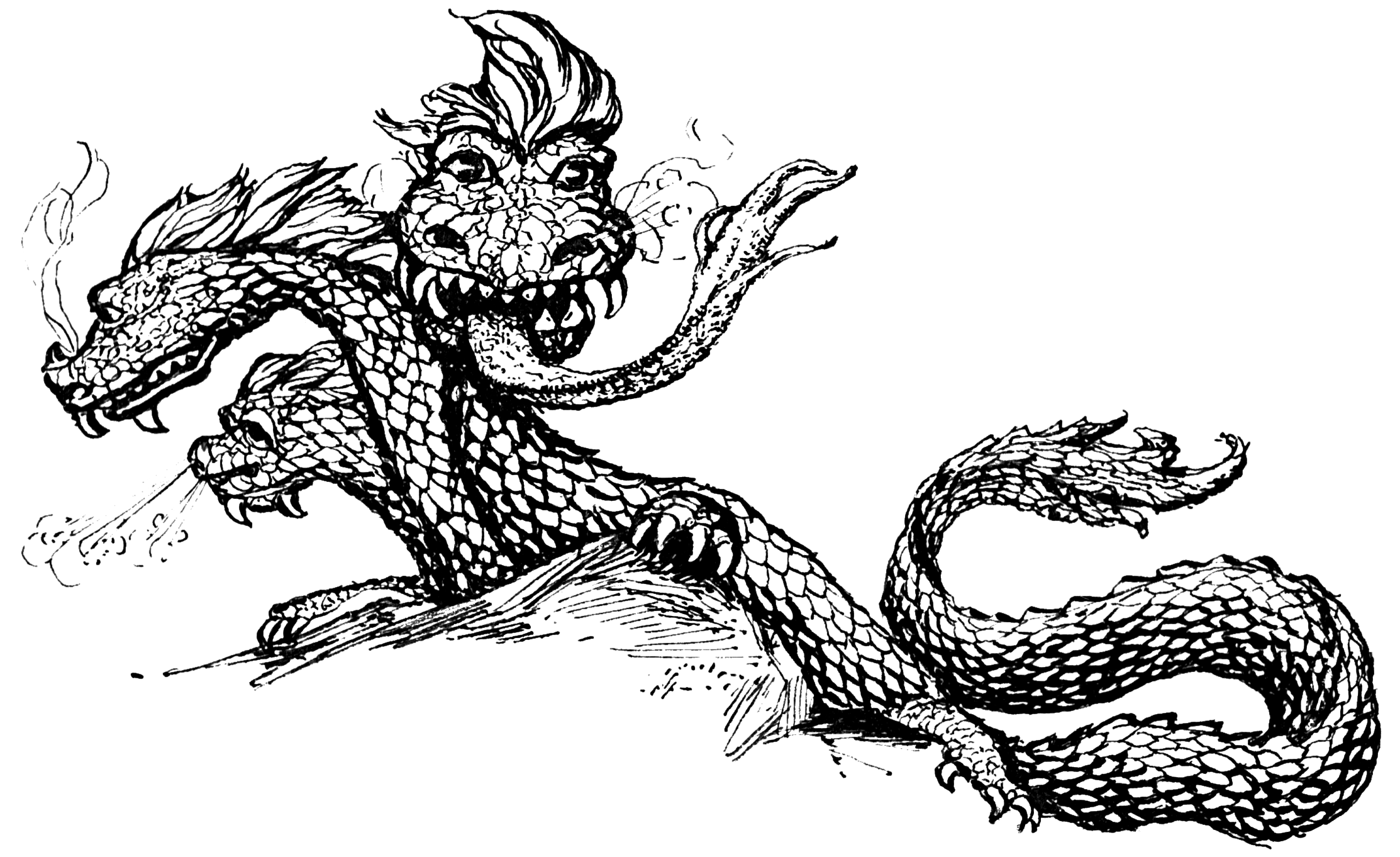 Dragon from PSF D-270006.png